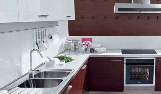 A typical product of the division